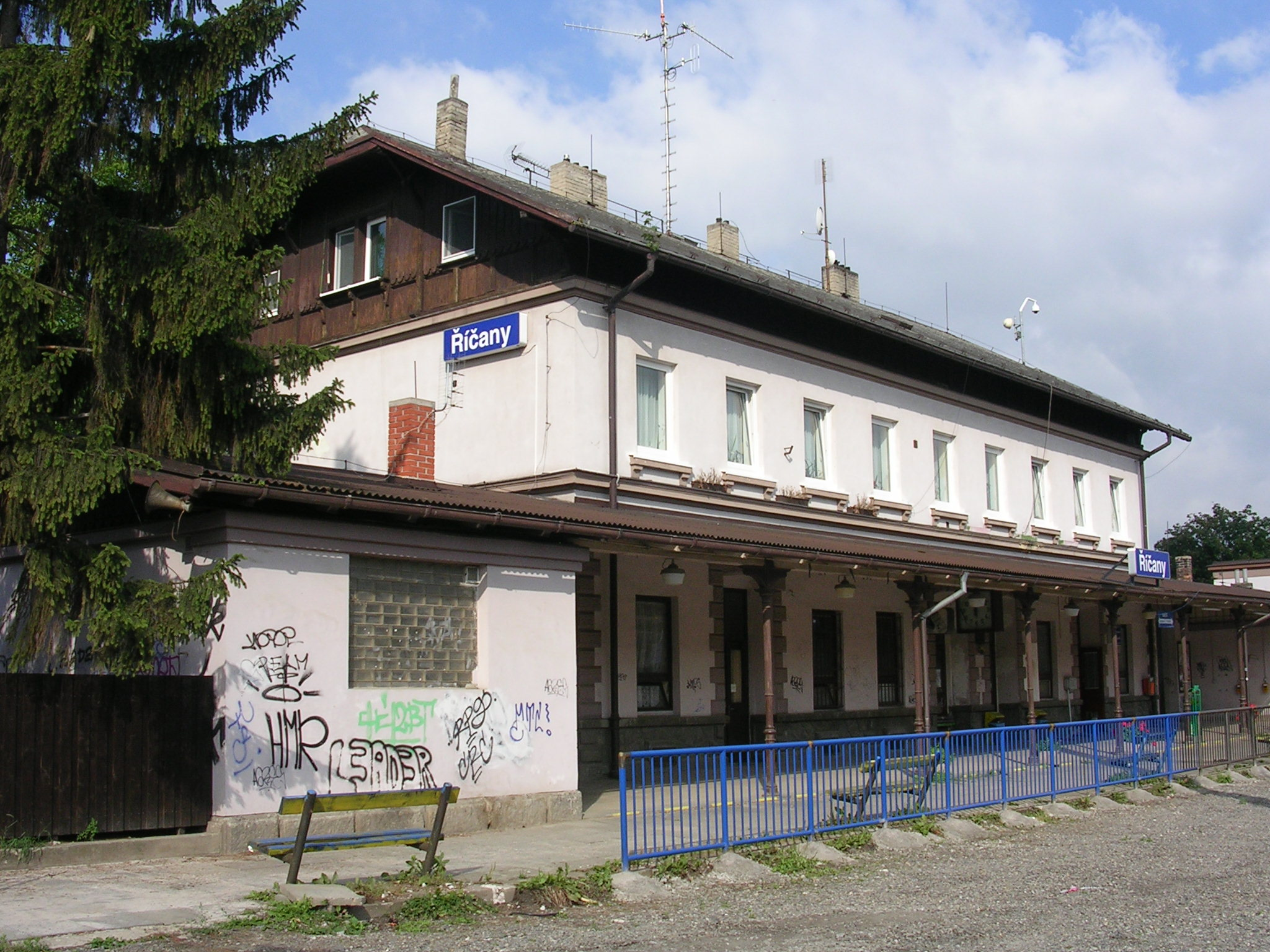 Říčany, Central Bohemian Region, the Czech Republic.